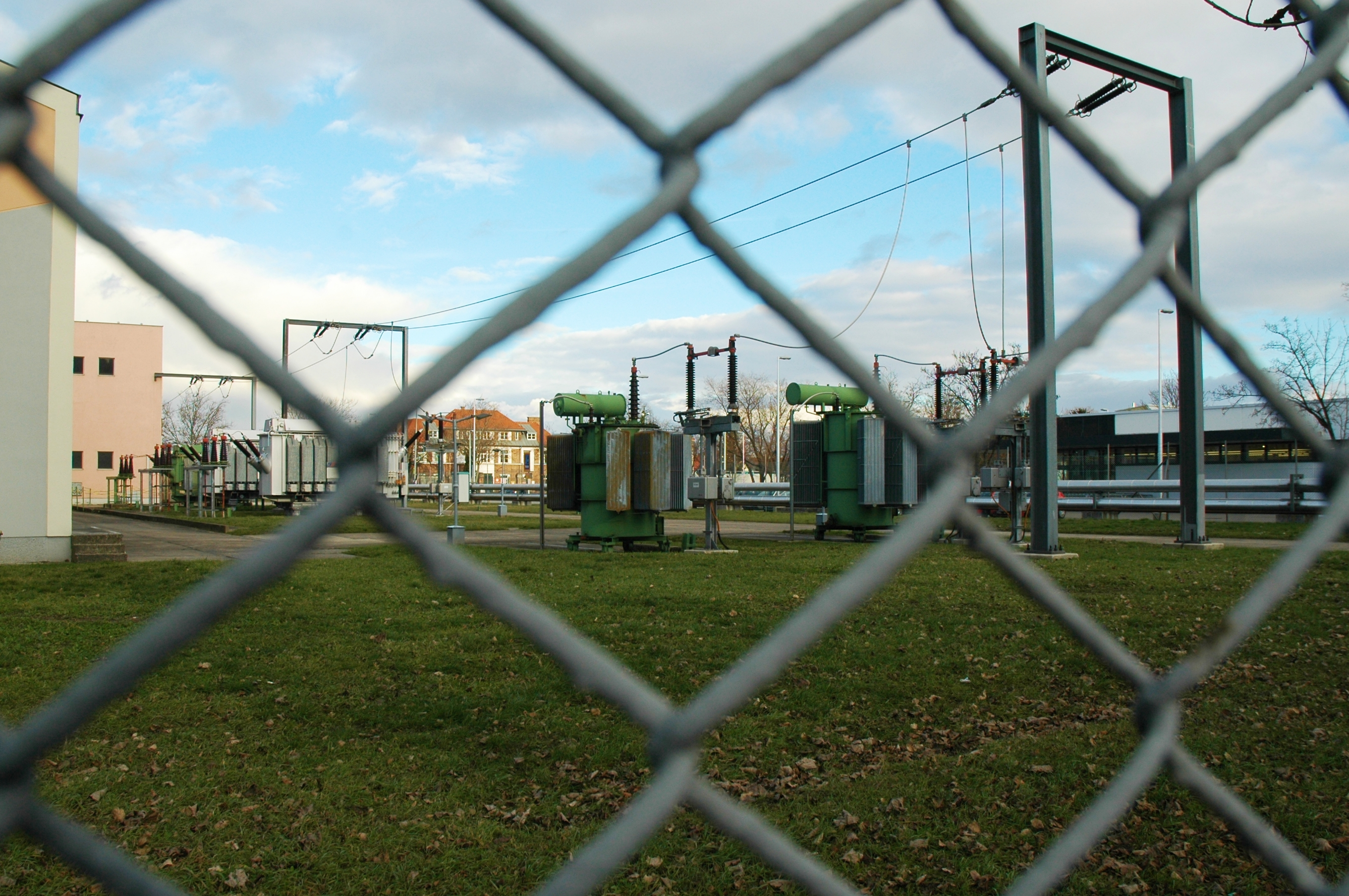 electric power transformation substation